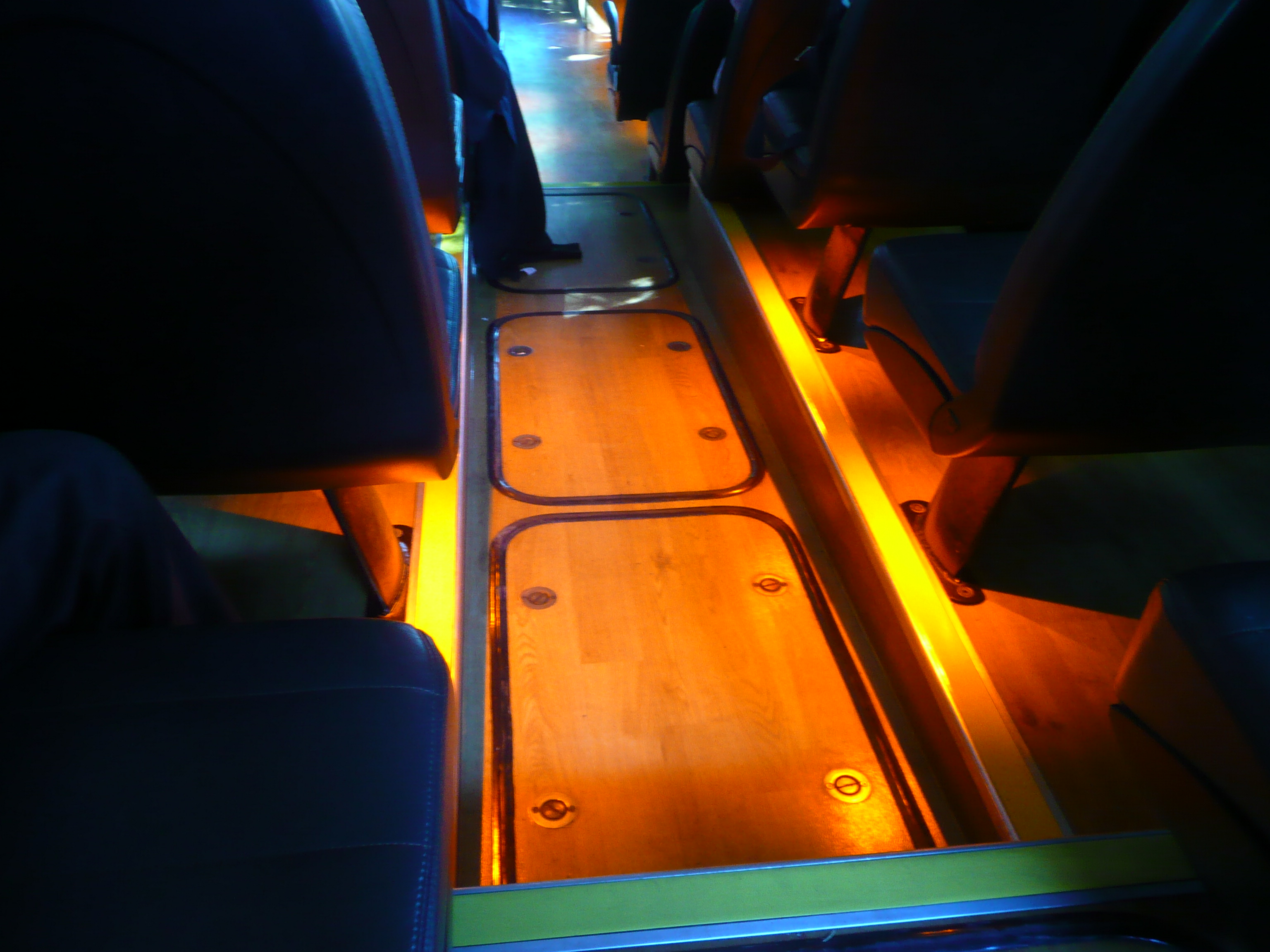 Inside an Eclipse BRT bus showing the downward facing under seat lighting and the wood effect flooring. This image was possible on a bright sunny day because the bus had stopped at traffic signals under a road bridge.